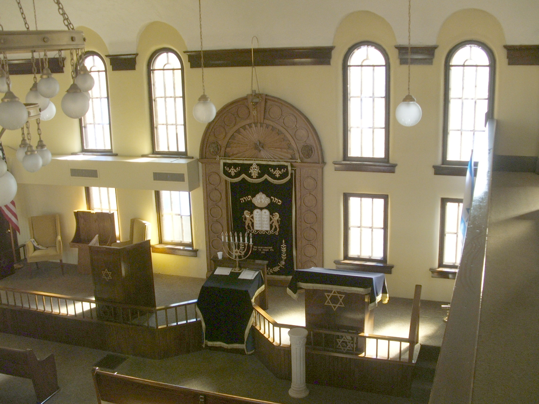 Interior of B'nai Jacob Synagogue (Ottumwa, Iowa), looking east from the top of the stairs to the former women's balcony (see Mechitza) toward the bimah and the Torah ark behind it.